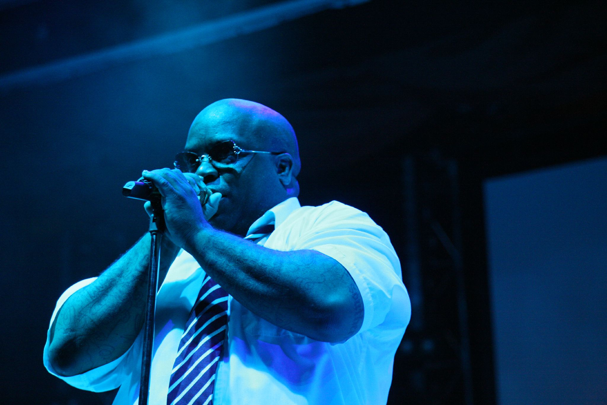 Gnarls Barkley at the Mini V festival in Melbourne.